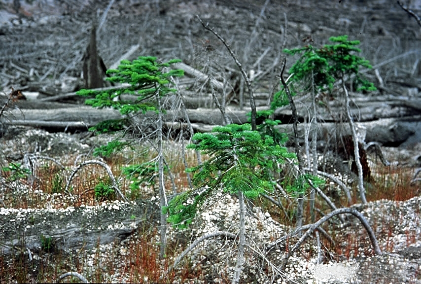 Mount St. Helens, recovery after the volcanic eruption, young Pacific Silver Firs (Abies amabilis), that were protected under a snow cover from the blast